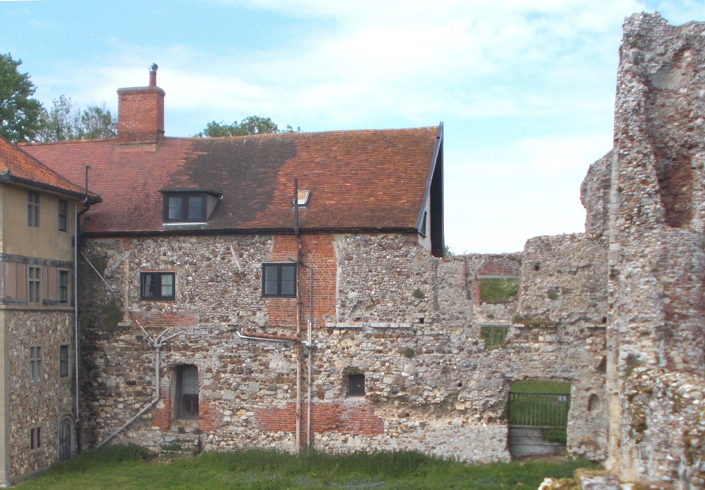 Wall of the south aisle of Leiston Abbey church, viewed from the south